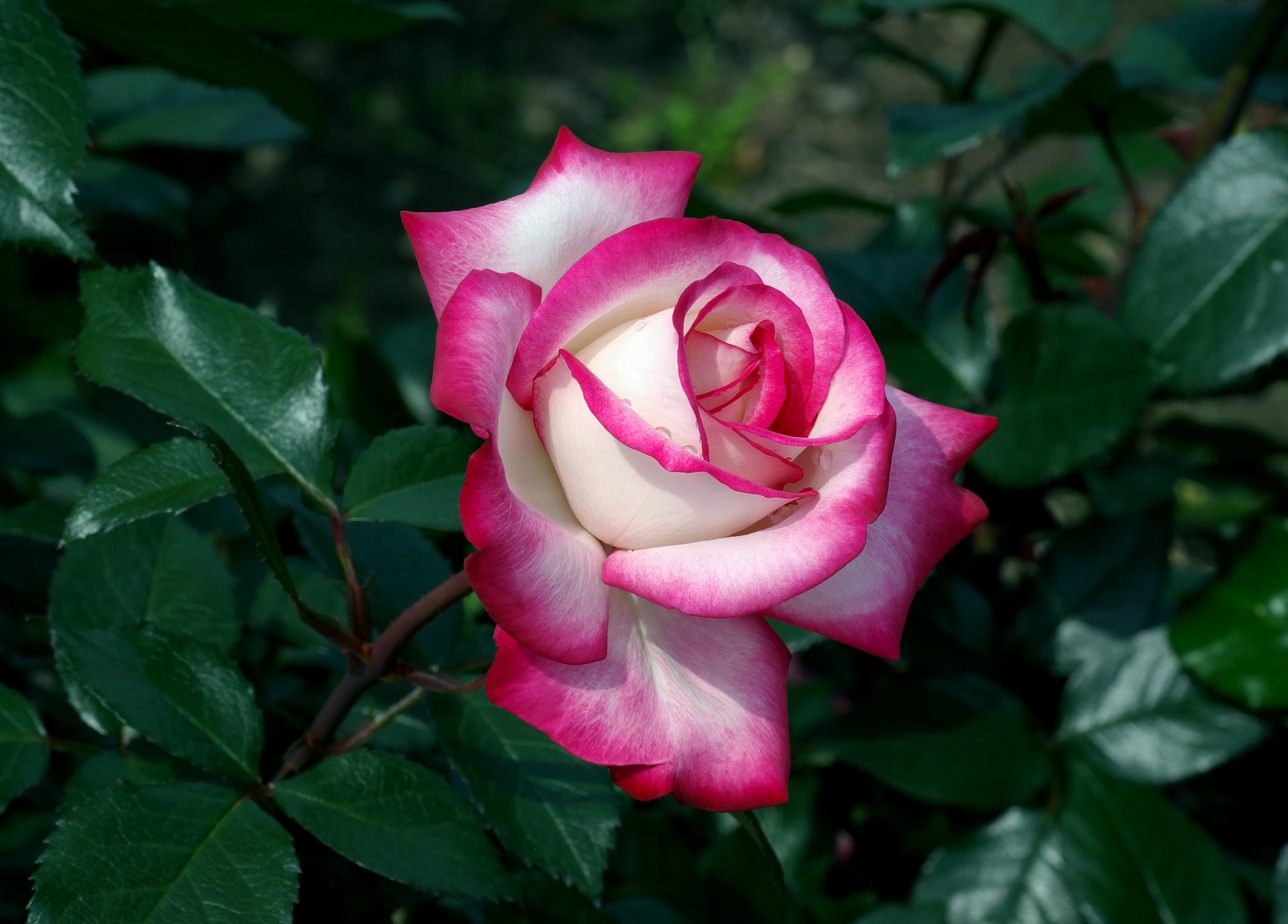 Maxim - Hybrid Tea 1994